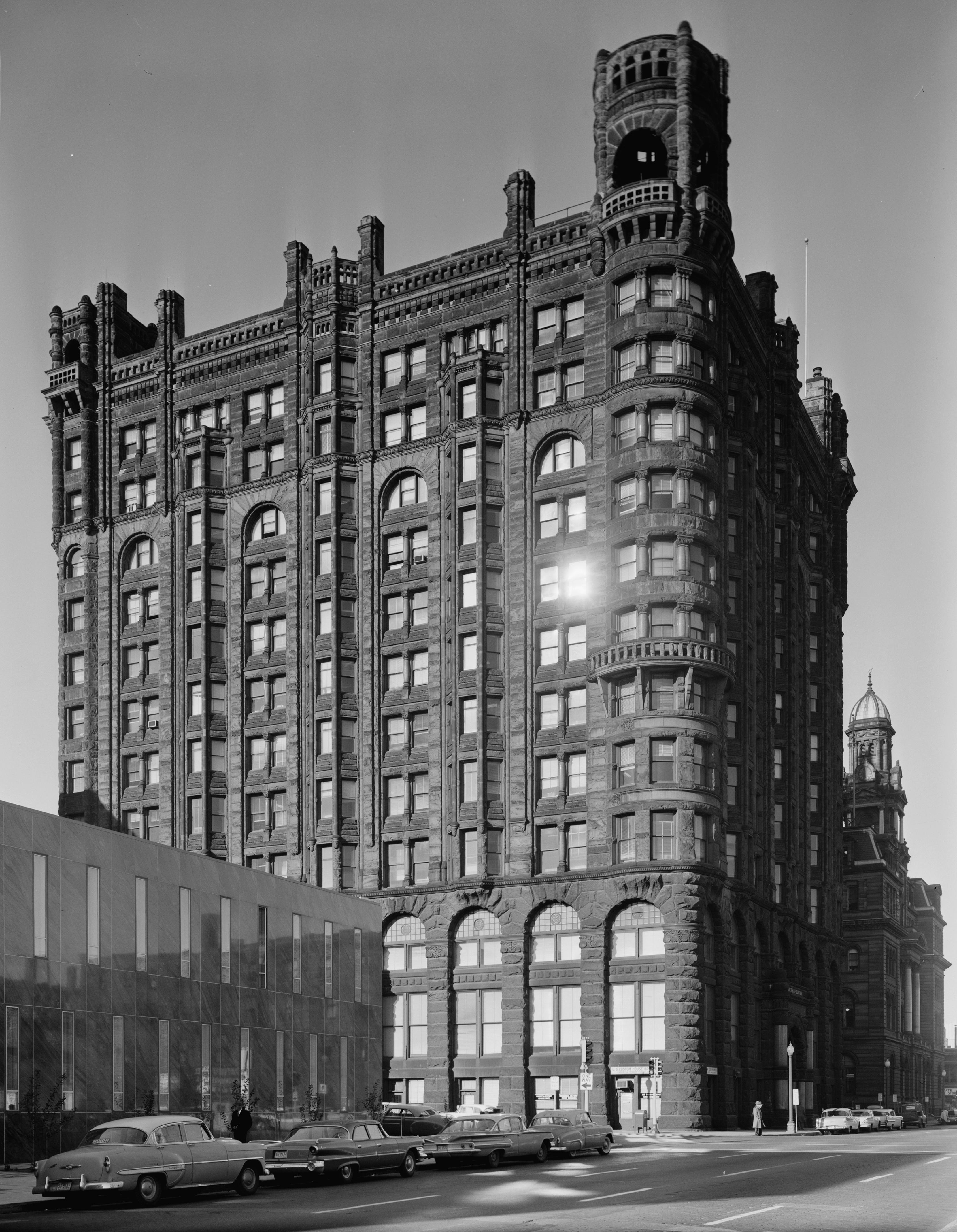 The Metropolitan Building, 308 Second Avenue South, Minneapolis, Minnesota. Designed by E. Townsend Mix in Richardsonian Romanesque style with rusticated lower stories. Built 1888, razed 1961. Height: 220 feet. Materials: green granite, red sandstone. This twelve-story building featured a roof garden with a restaurant patronized by Minneapolis' high society, an observation tower, and a skylight over an atrium with iron balconies. Commissioned by Louis Menage (1850-1924) for his various businesses as well as for rental to other businesses. Photo taken November 1960 by Jack E. Boucher. Photographer's note: "Overall elevation, taken from east". HABS No. MN-49-1.